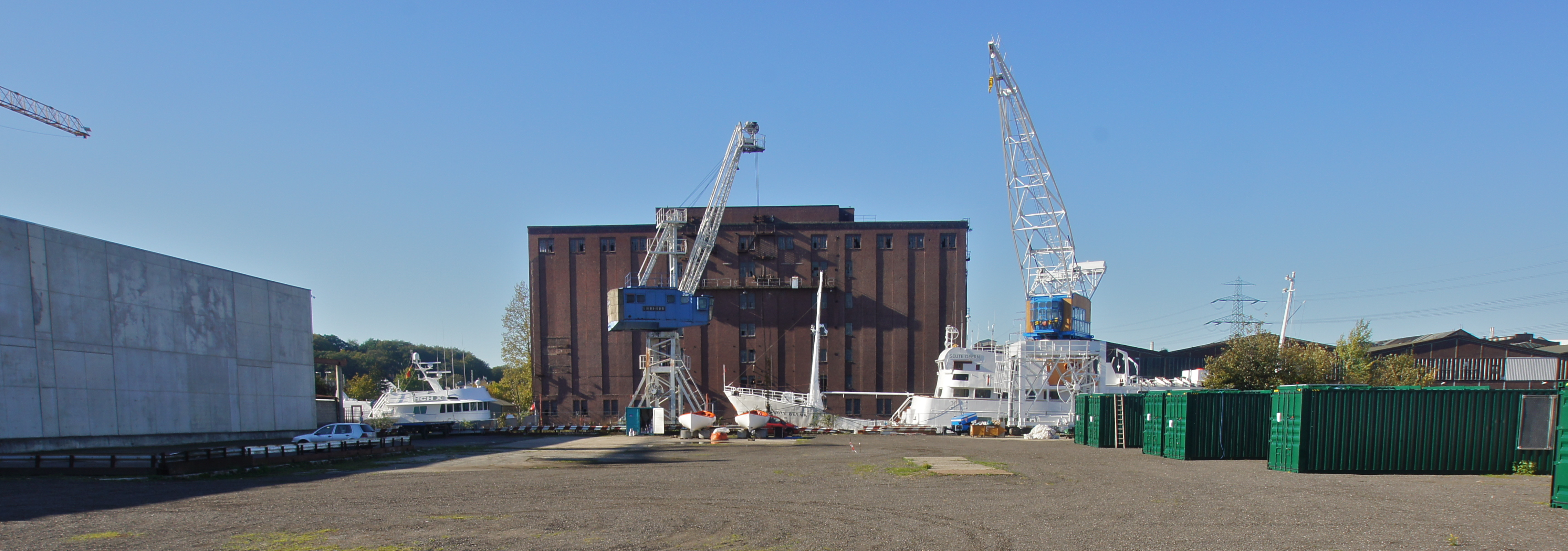 Hamburg (Harburg), Germany: Cranes at the Ziegelwiesenkanal